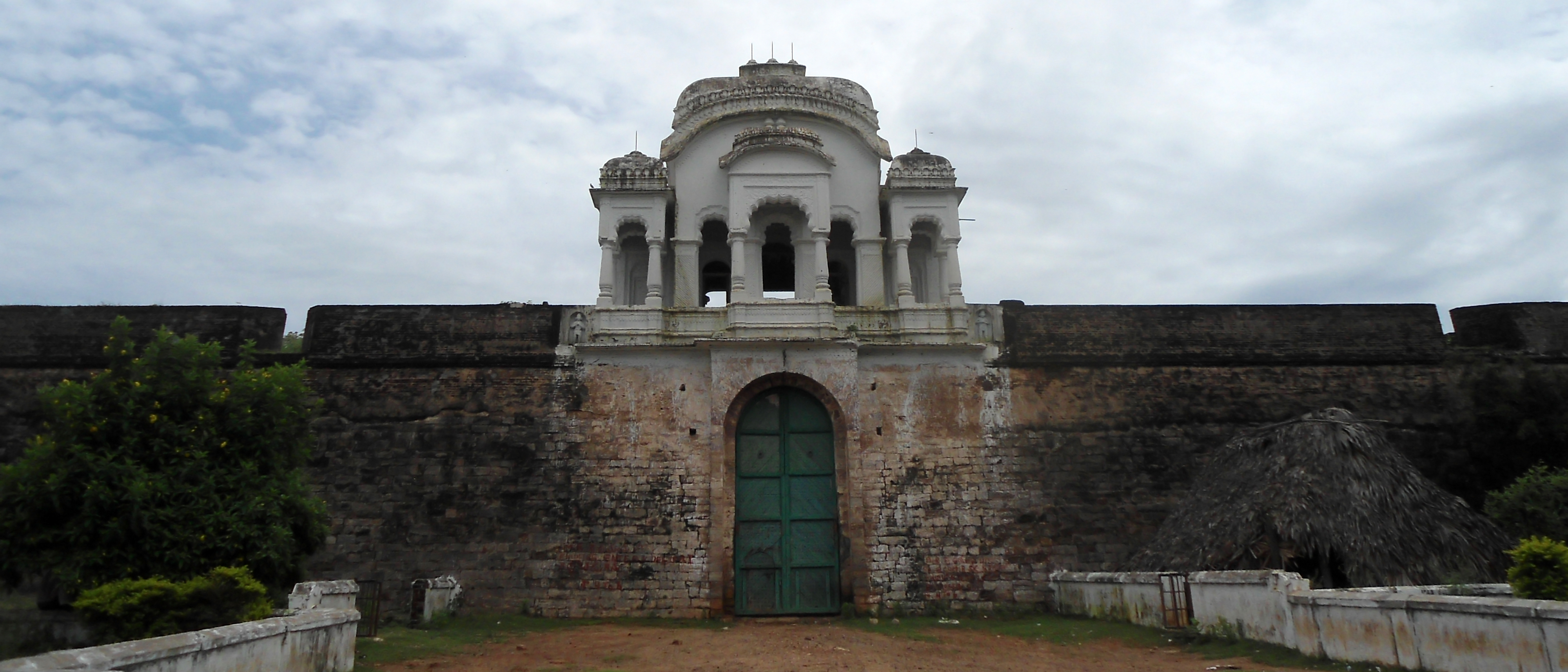 Vizianagaram fort in Andhra Pradesh